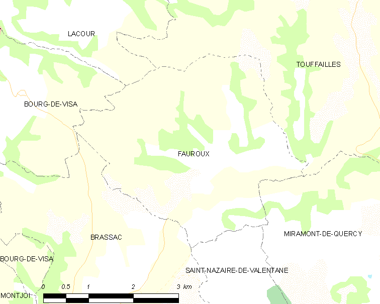 Map of French municipality Fauroux